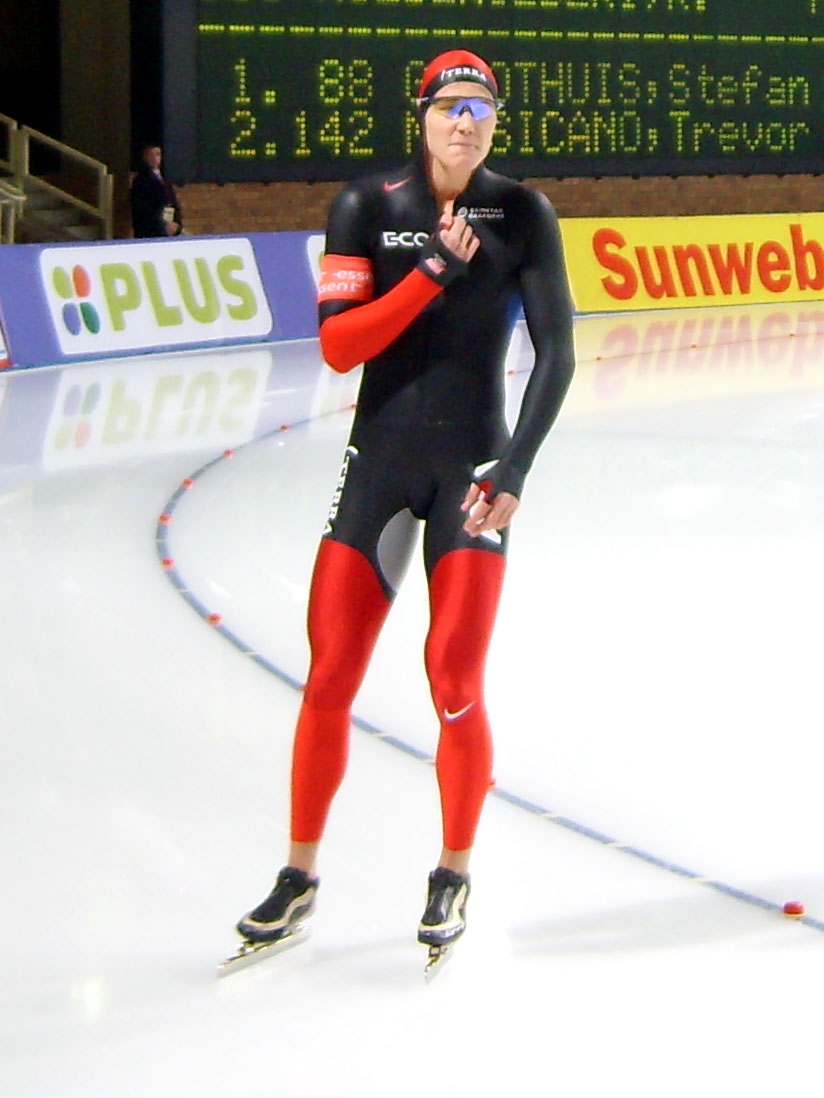 Christoffer Fagerli Rukke (NOR) befor 1500 meters world cup speedskating race in Berlin, Germany.